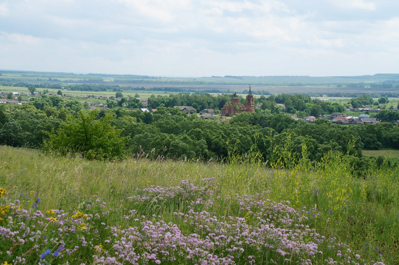 Kosogory village (Gosagyr) in the district Bolshebereznikovsky of Mordovia, Russia